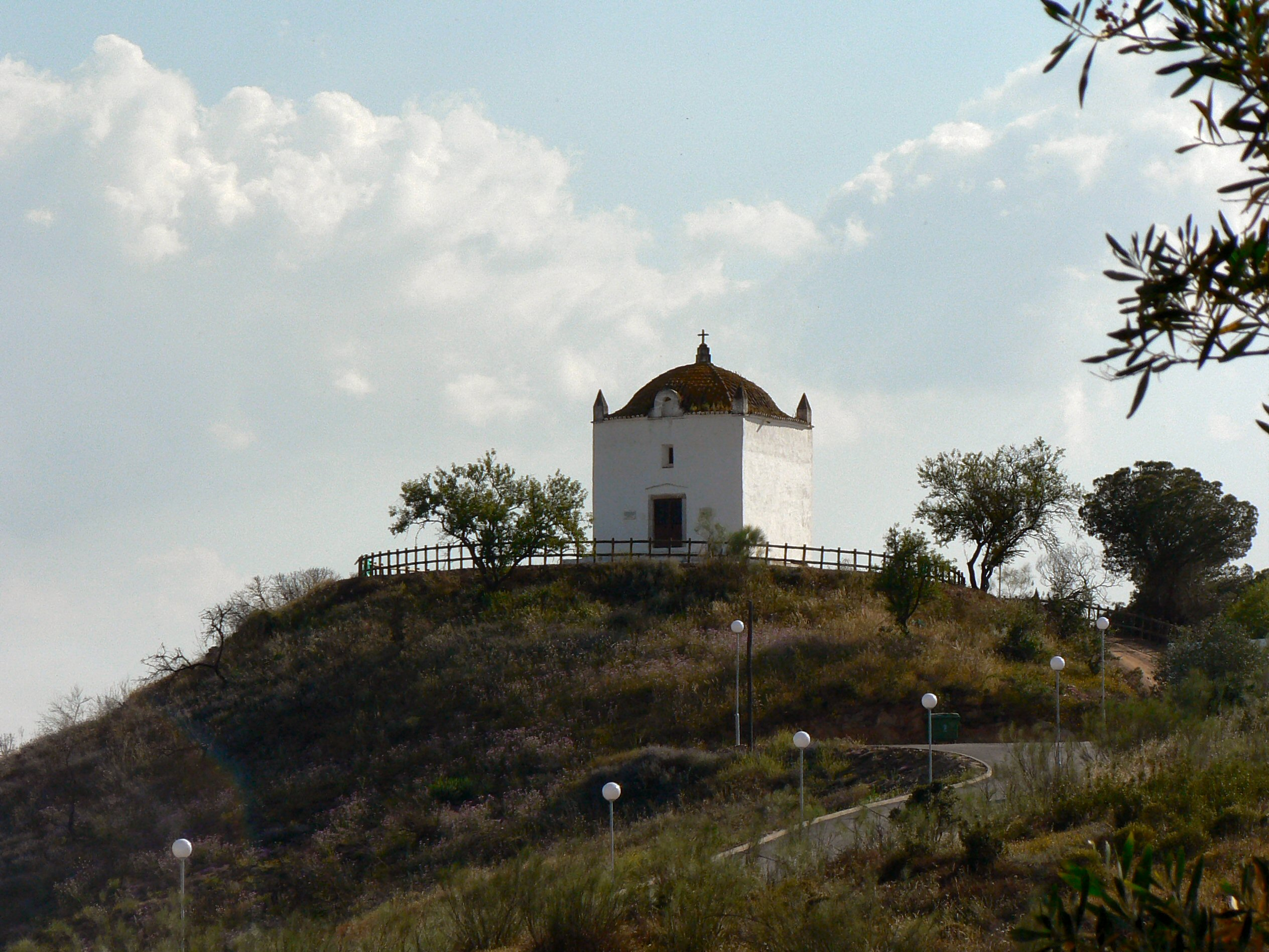 The Chapel of Our Lady of the Snows (Ermida de Nossa Senhora das Neves) is situated on a small hill overlooking the village Mértola